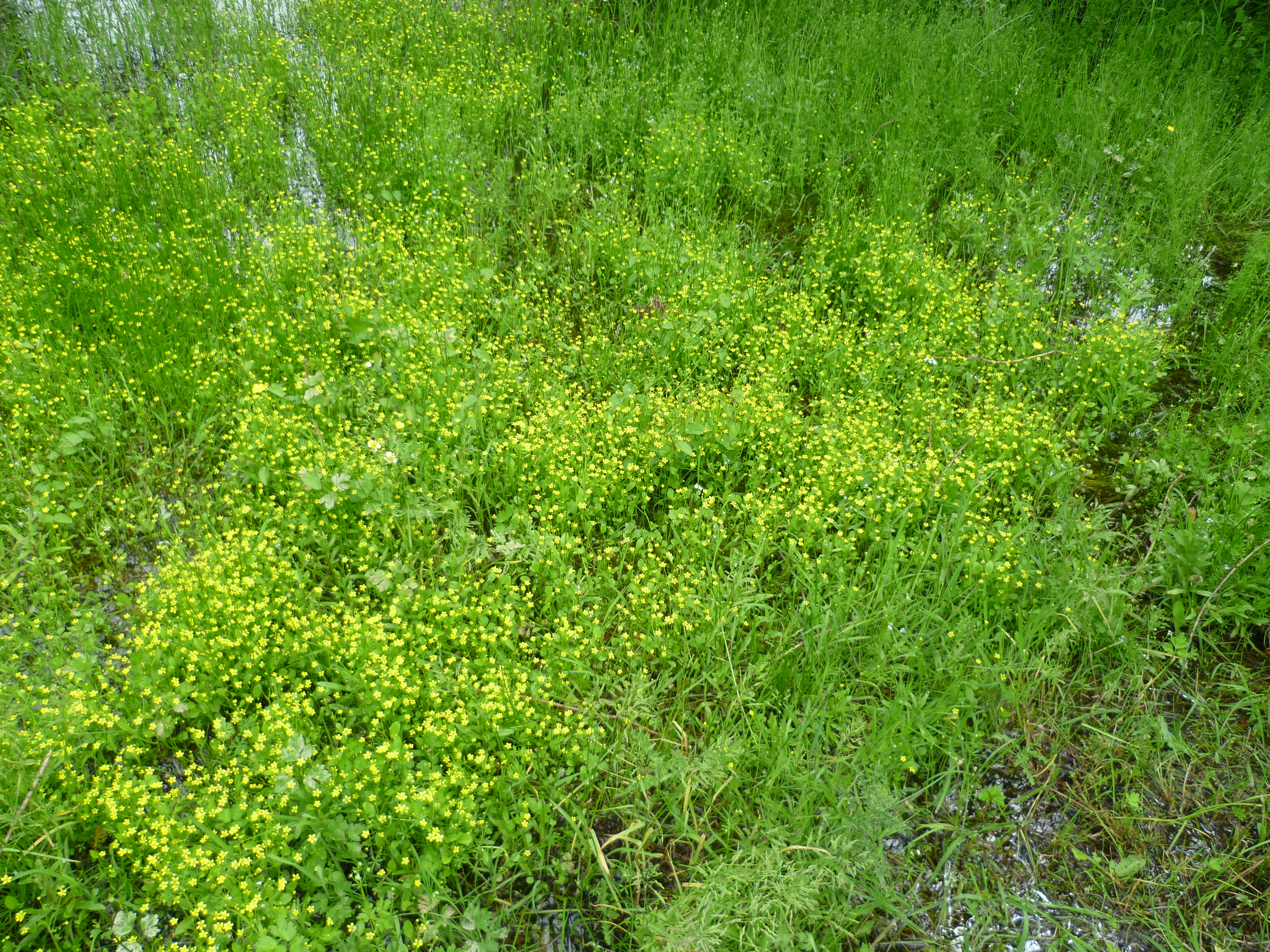 Badgeworth buttercup (Adder's-tongue Spearwort - Ranunculus ophioglossifolius) flowering in June 2012 at Gloucestershire Wildlife Trust nature reserve (Gloucestershire, England)